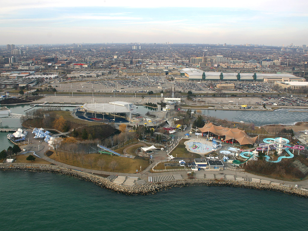 Aerial overview of Ontario Place to the north, including the Molson Amphitheatre and Ontario Place waterpark. Photo by Duke, January 2006.